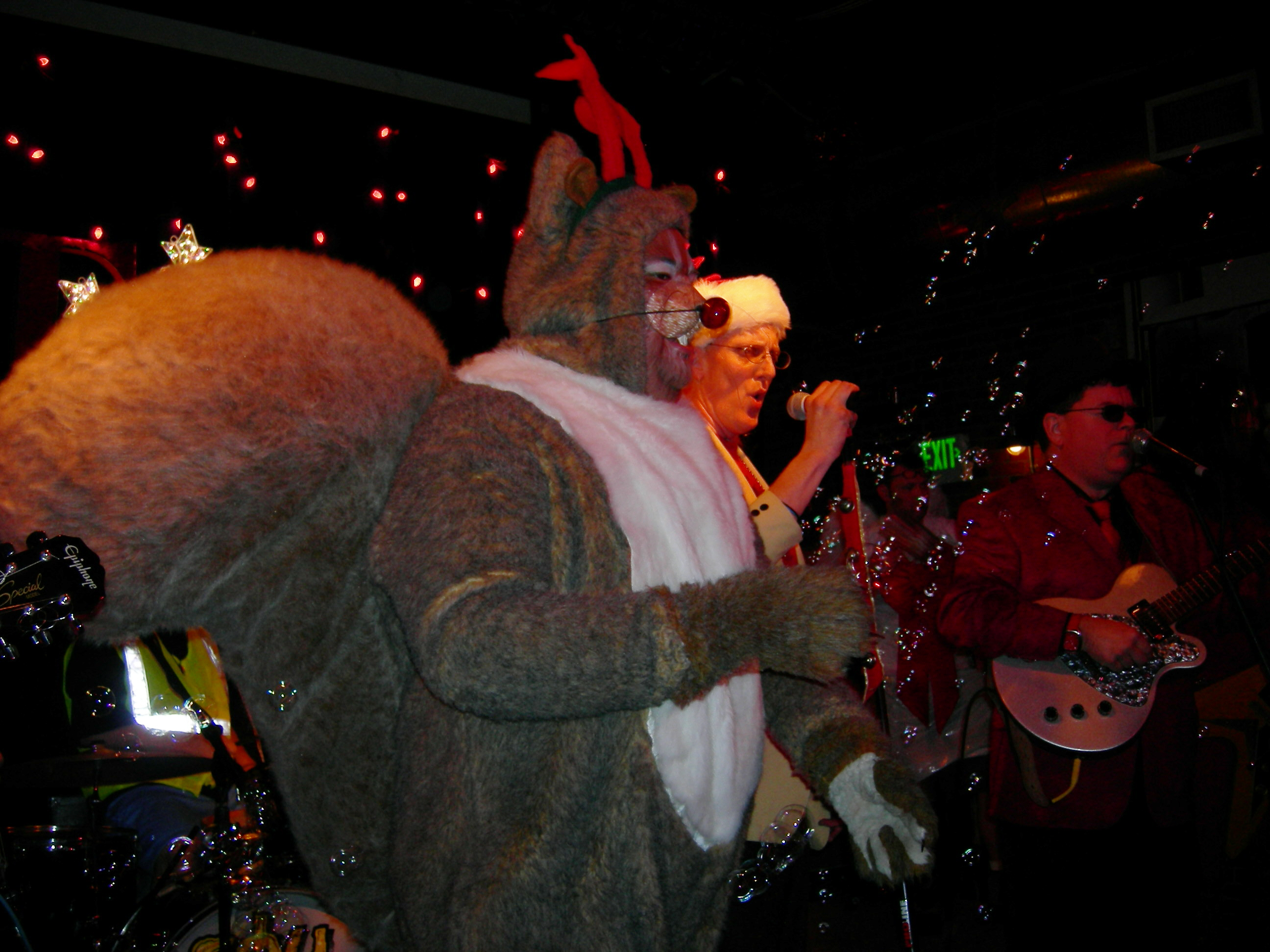 Rob Morgan with "the guy in the Squirrel suit." Joey Kline in background. The Squirrels XXXmas Show, at the Tractor Tavern in the Ballard neighborhood of Seattle, Washington.